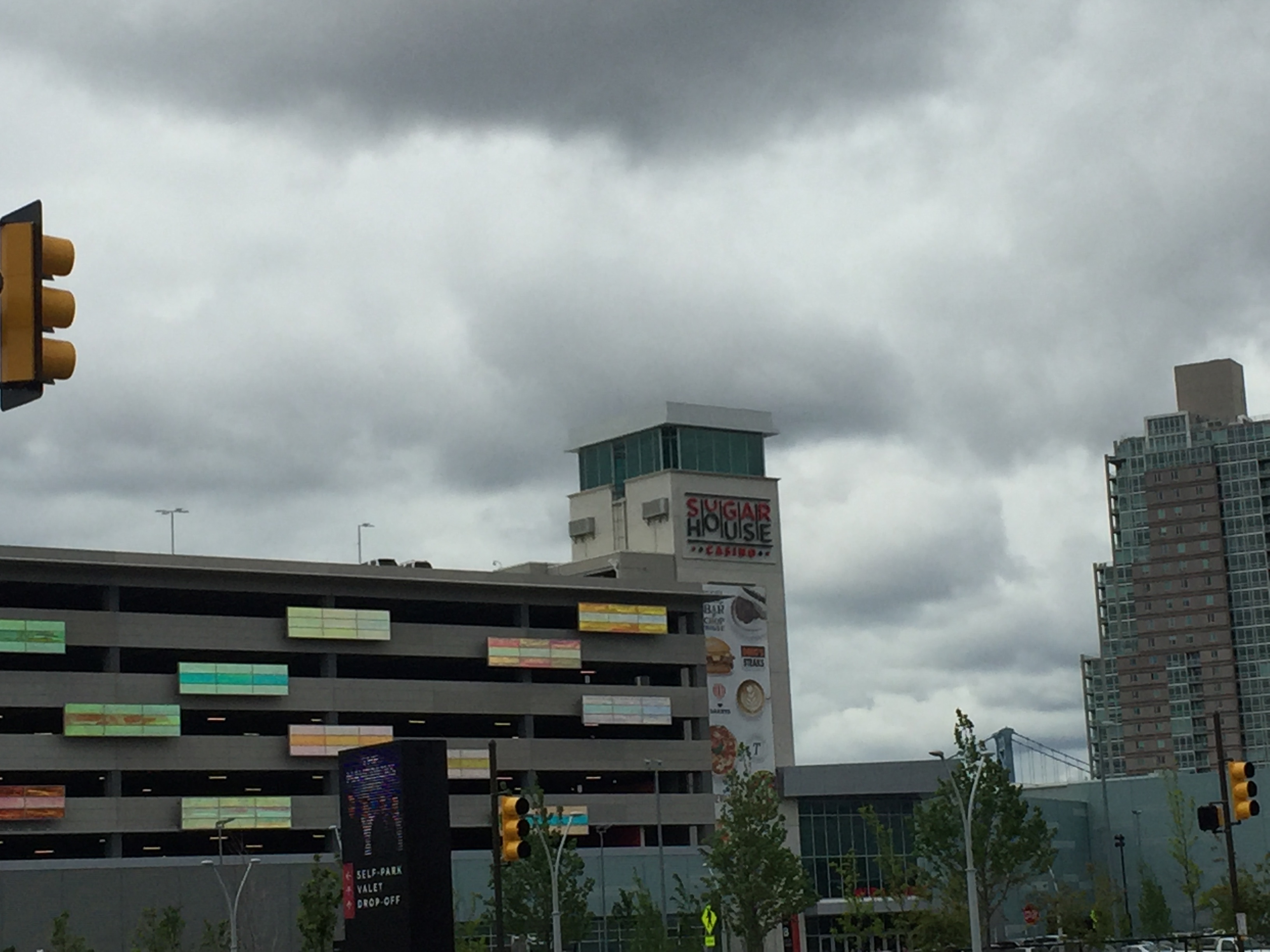 Sugar house Casino pic from Delaware avenue